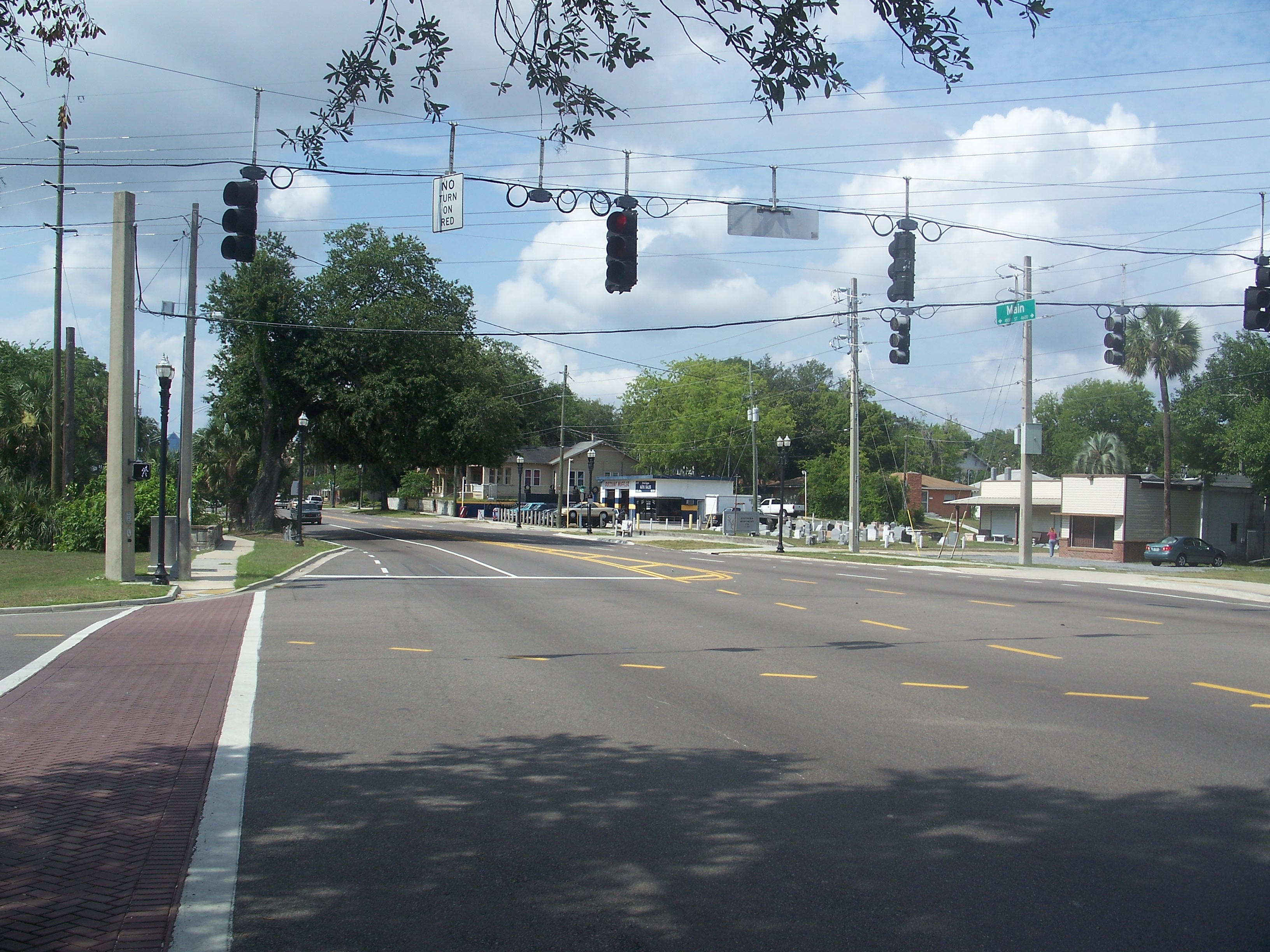 Jacksonville, Florida: U.S. Route 17, near Evergreen Cemetery